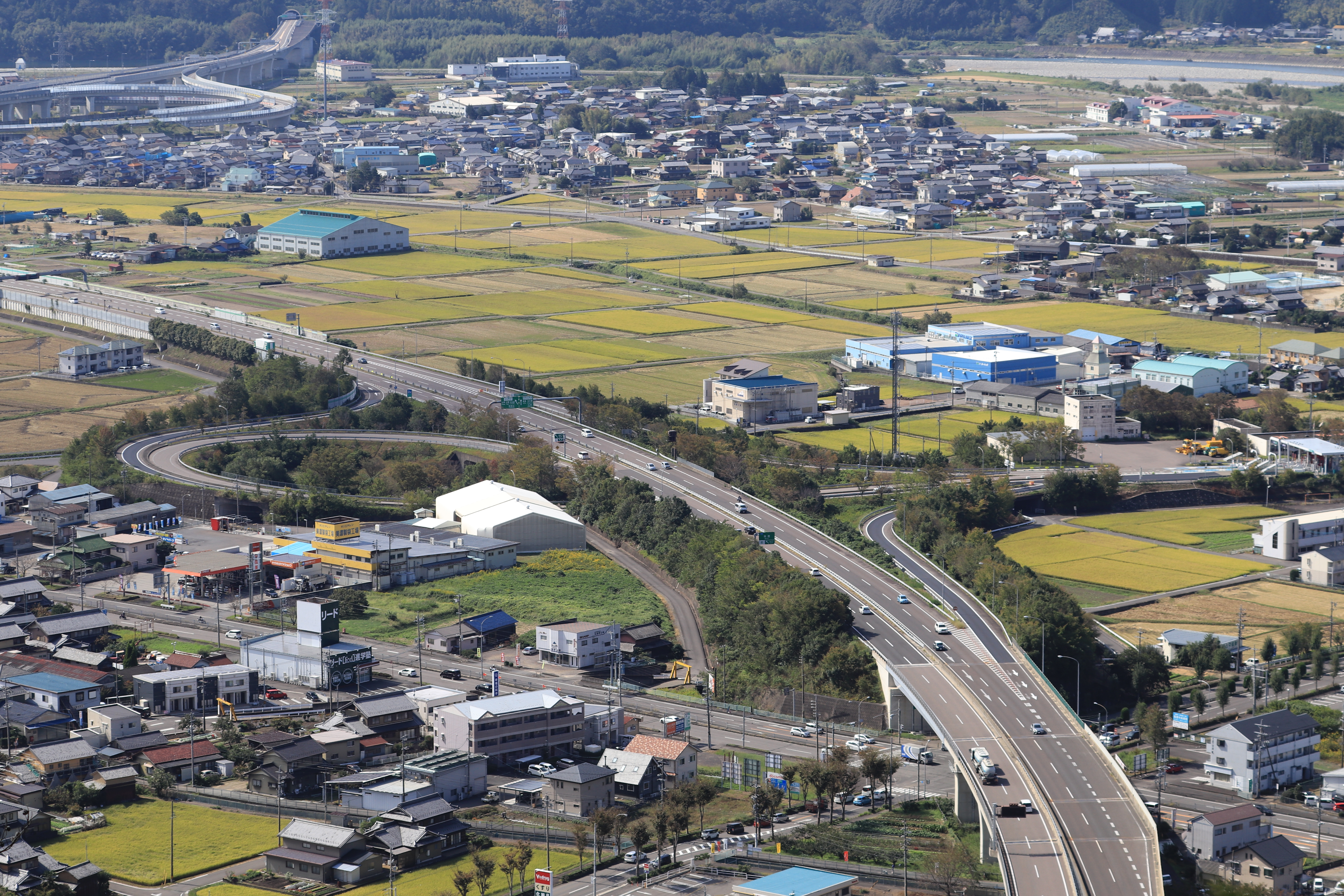 Mino Interchange on Tōkai-Hokuriku Expressway and Route 156 seen from Mount Matsukura in Mino, Gifu Prefecture, Japan.